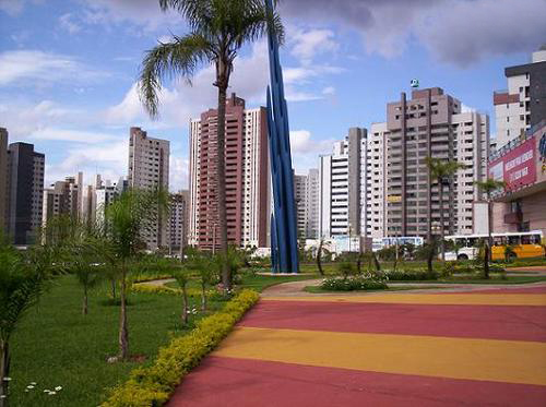 Summary belo horizonte brasil i took this picture mateus zica